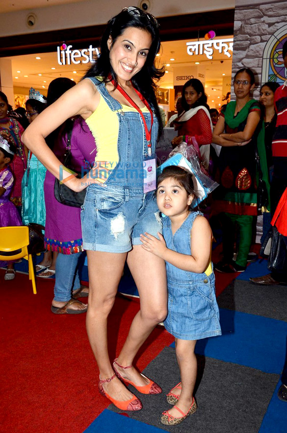 Kamya Panjabi at Disney princess' promotion in Mumbai